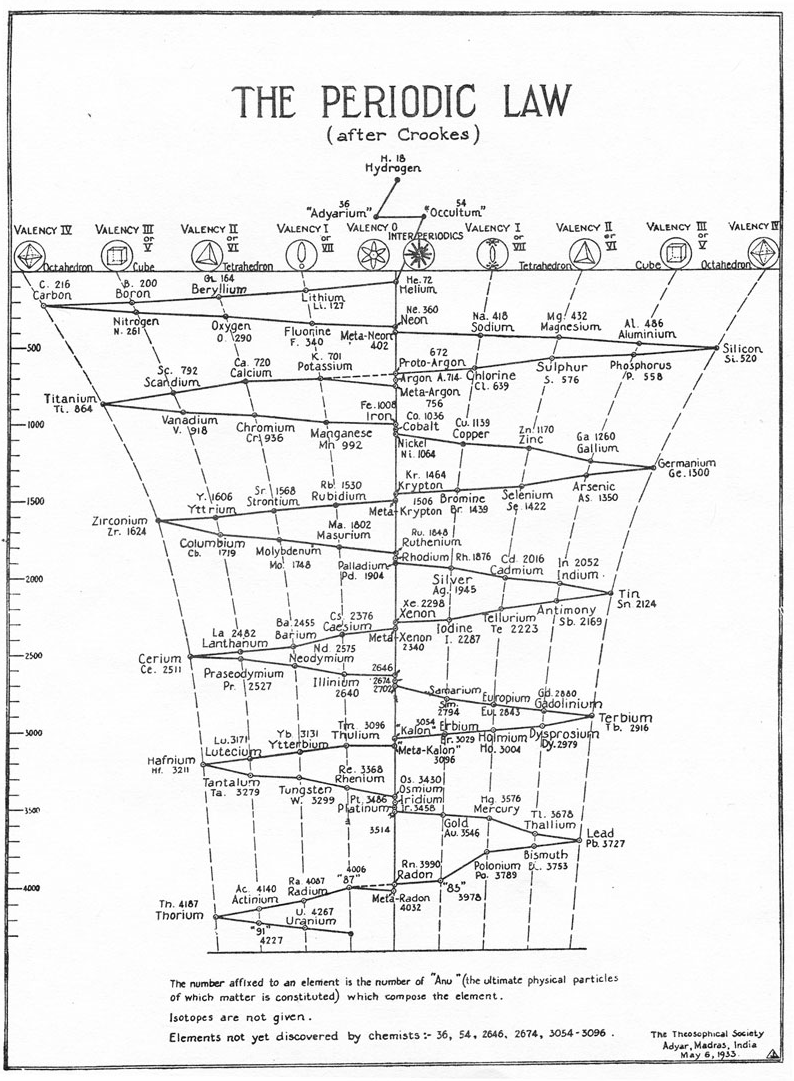 The Periodic Law (after Crookes). The number affixed to an element is the number of "Anu" (the ultimate physical particles of which matter is constituted) which compose the element. Isotopes are not given. Elements not yet discovered by chemists:- 36, 54, 2646, 2674, 3054-3096.